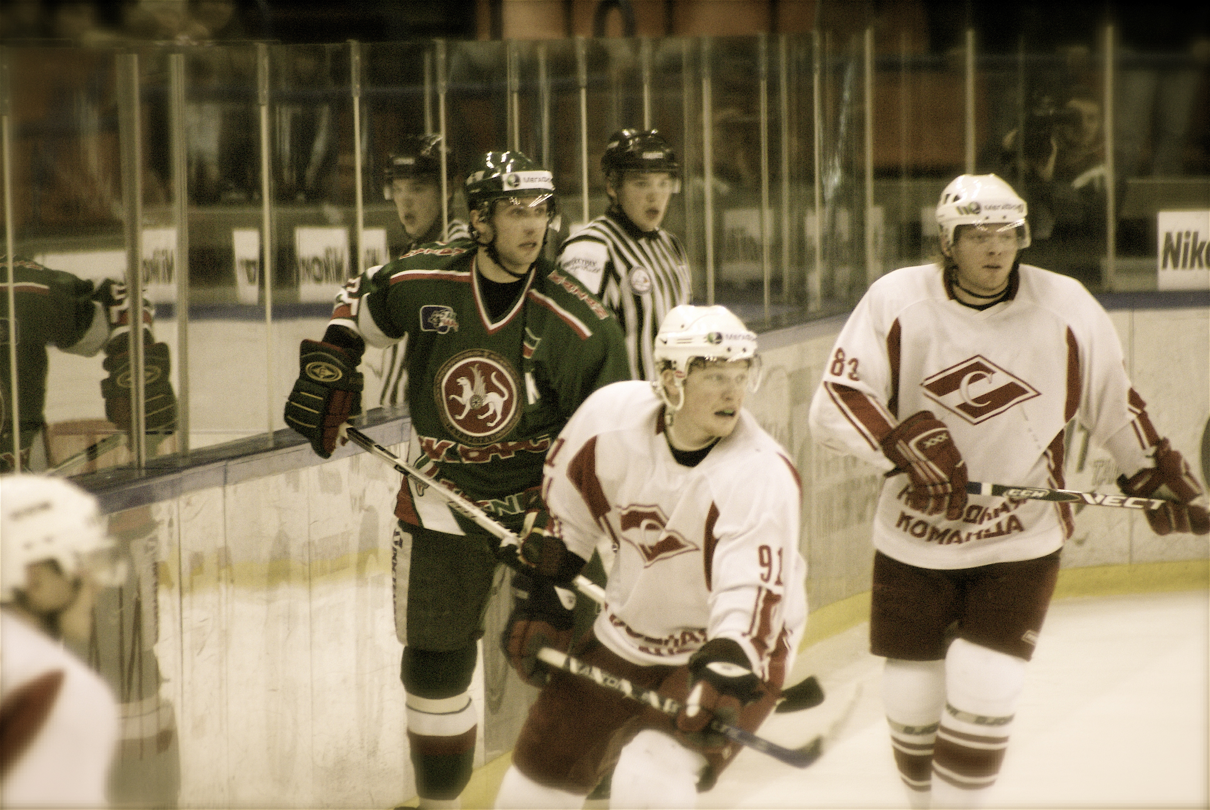 Aleksey Morozov of Ak Bars Kasan; Michail Yunkov and Kirill Knyazev of Spartak Moscowhockey